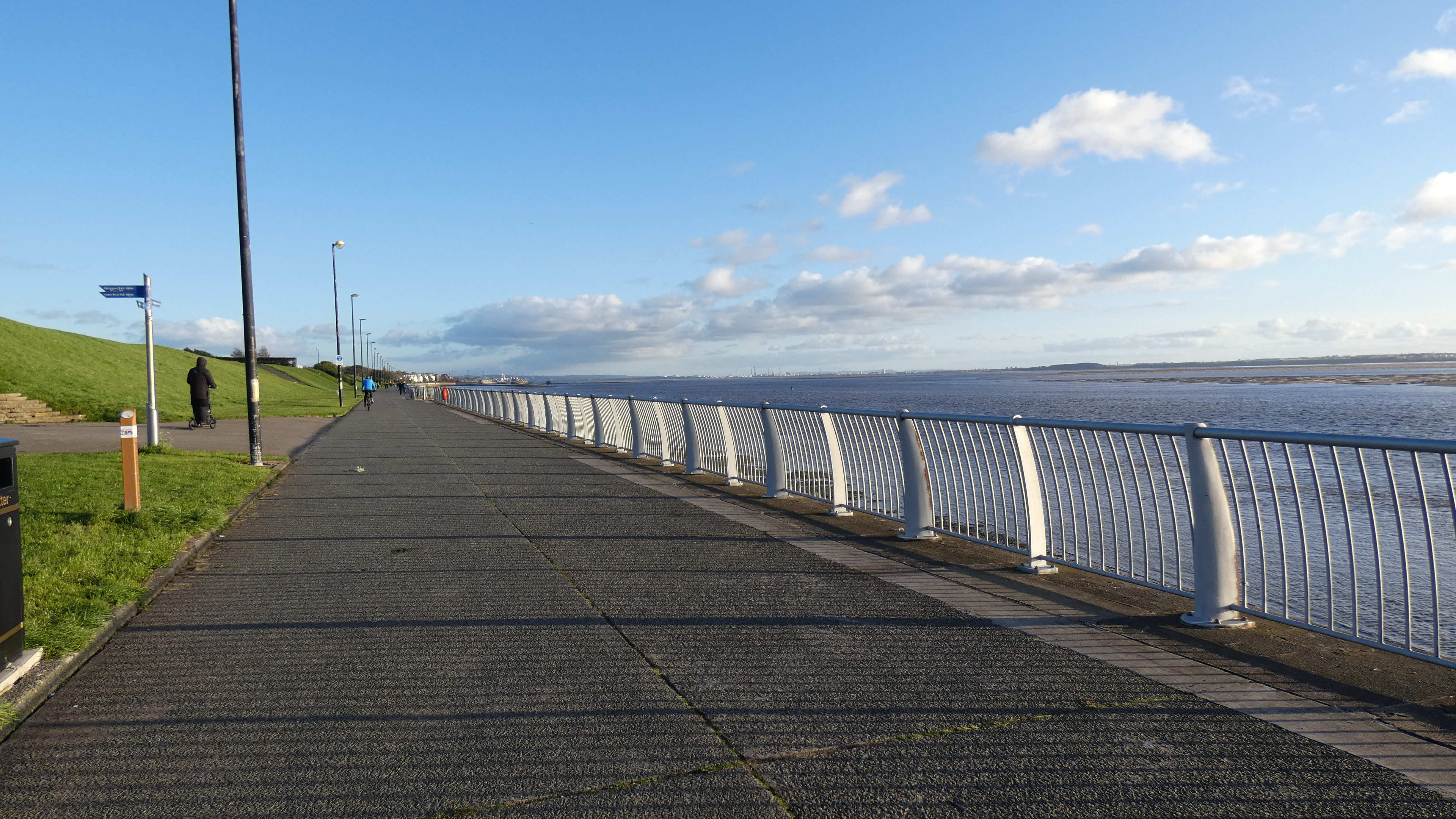 2019, Andrzej